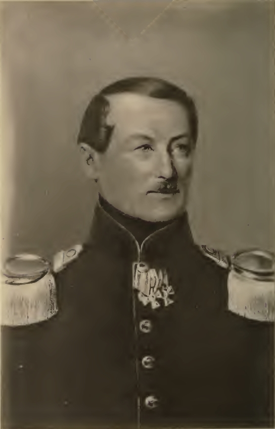 portrait of the Prussian Major Meno Burg, Jew